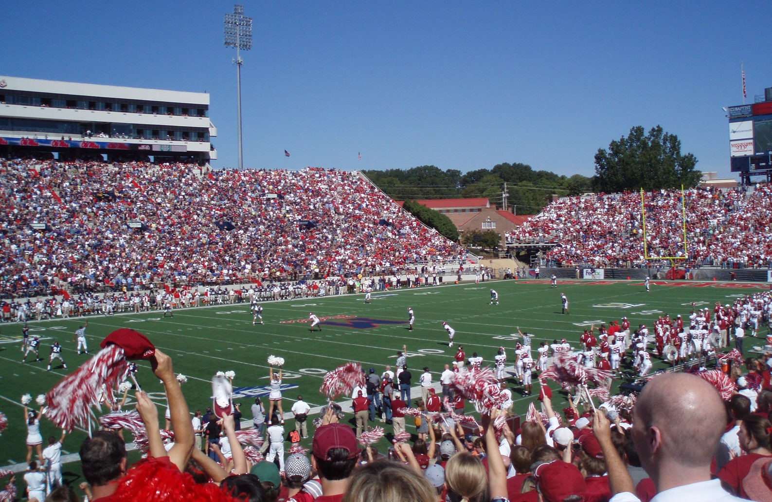 Vaught-Hemingway Stadium at opening kickoff before a game between Alabama and Ole Miss.